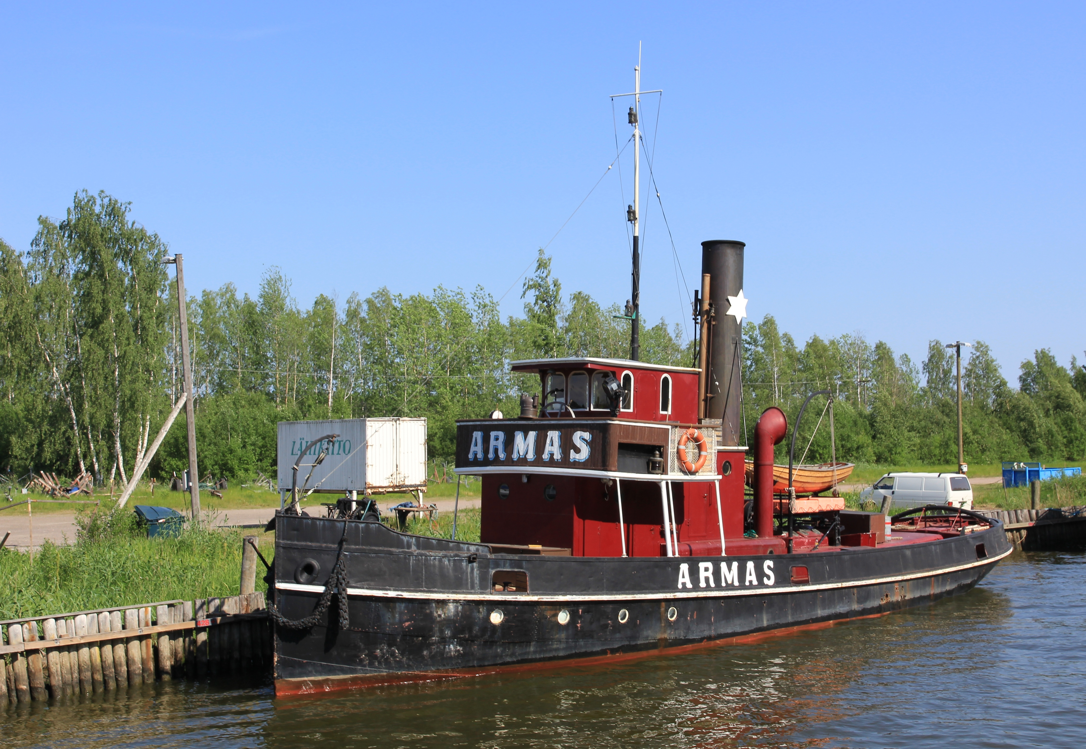 Preserved steam tug Armas in Porvoo.